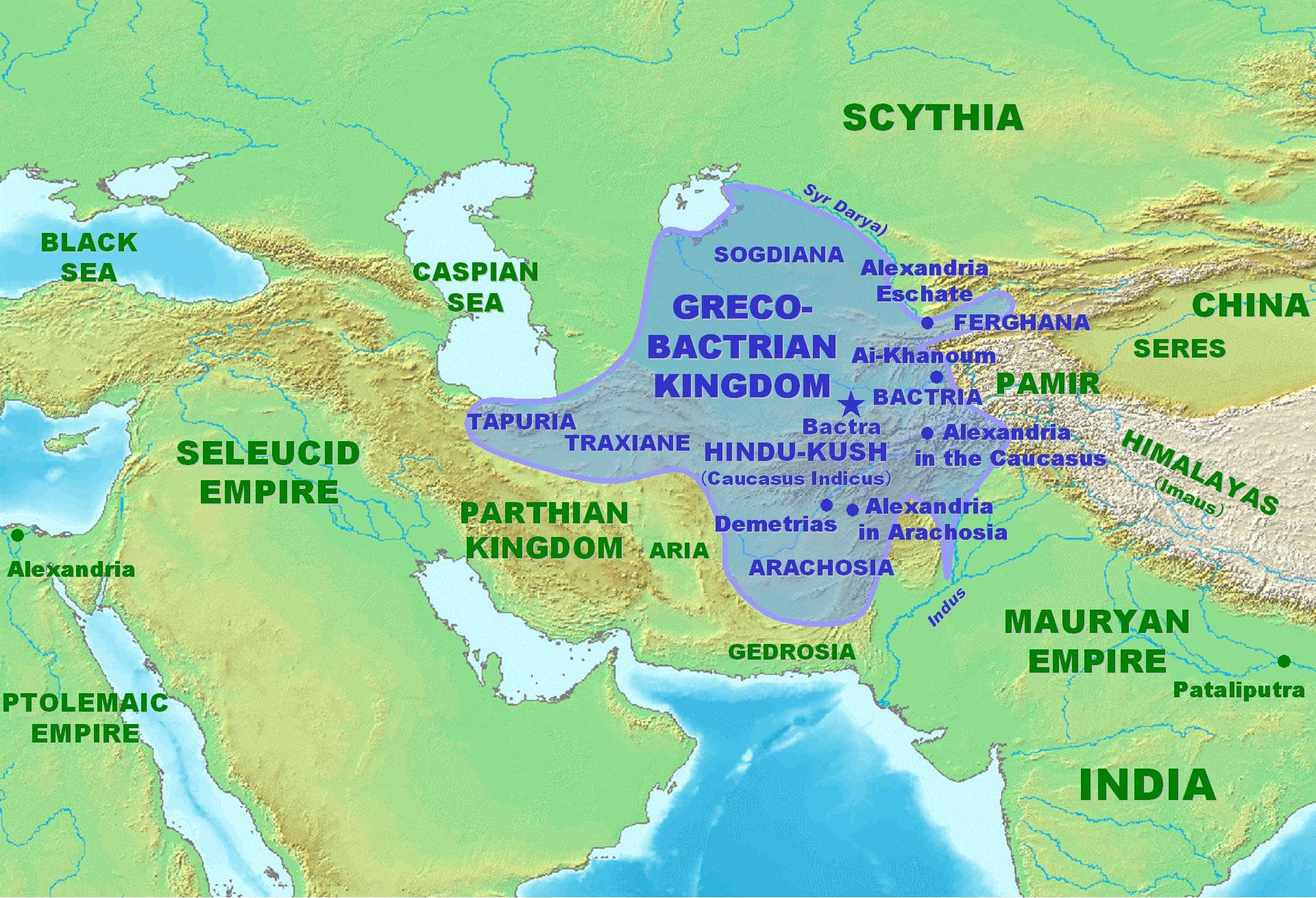 Map of the Greco-Bactrian at its maximum extent, circa 180 BC. Personal creation.